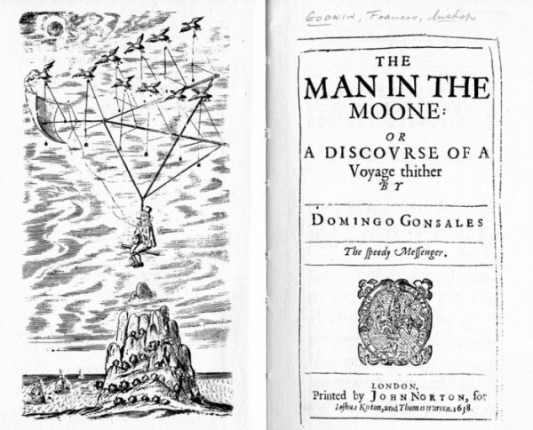 Frontispiece and title page of the first edition